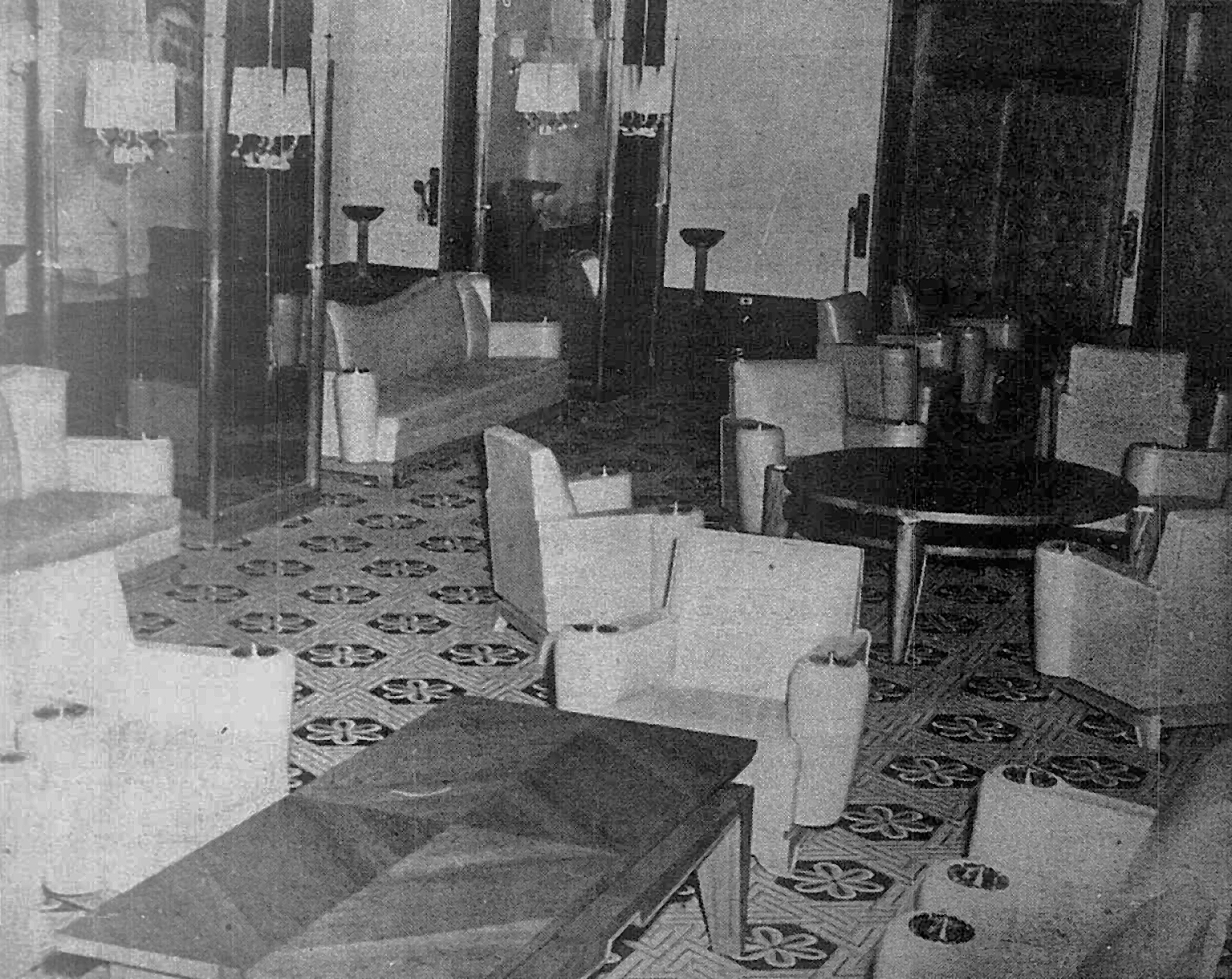 Detail of the waiting room of the Cine Marrocos of São Paulo